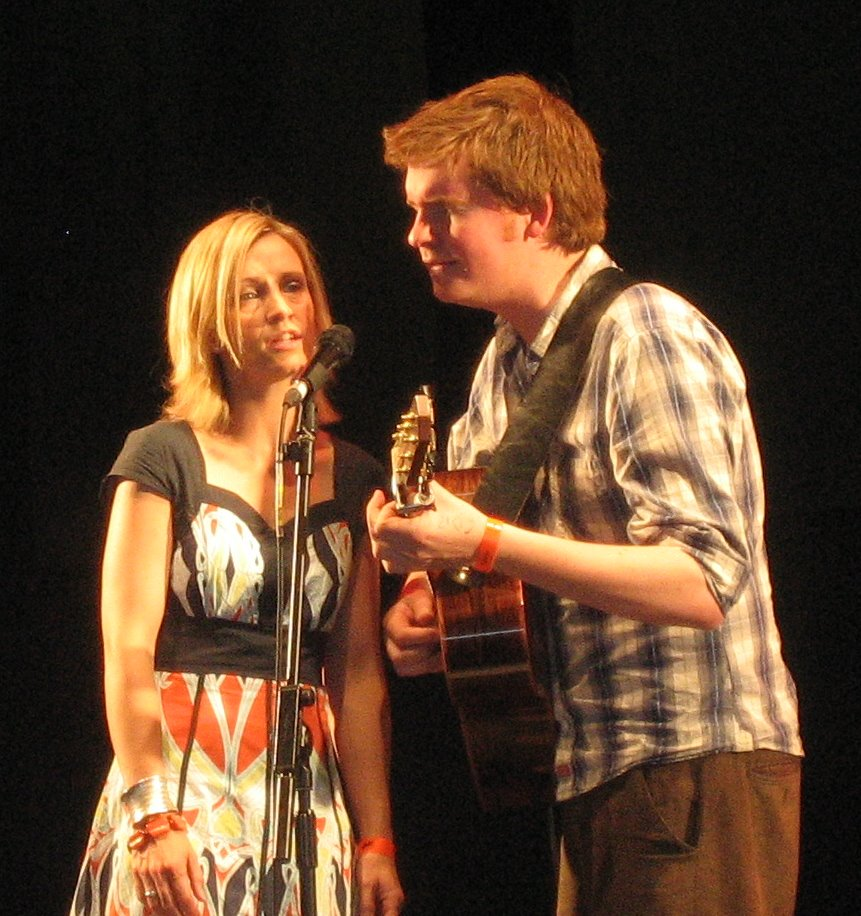 Cara Dillon performing at WOMAD, 2008